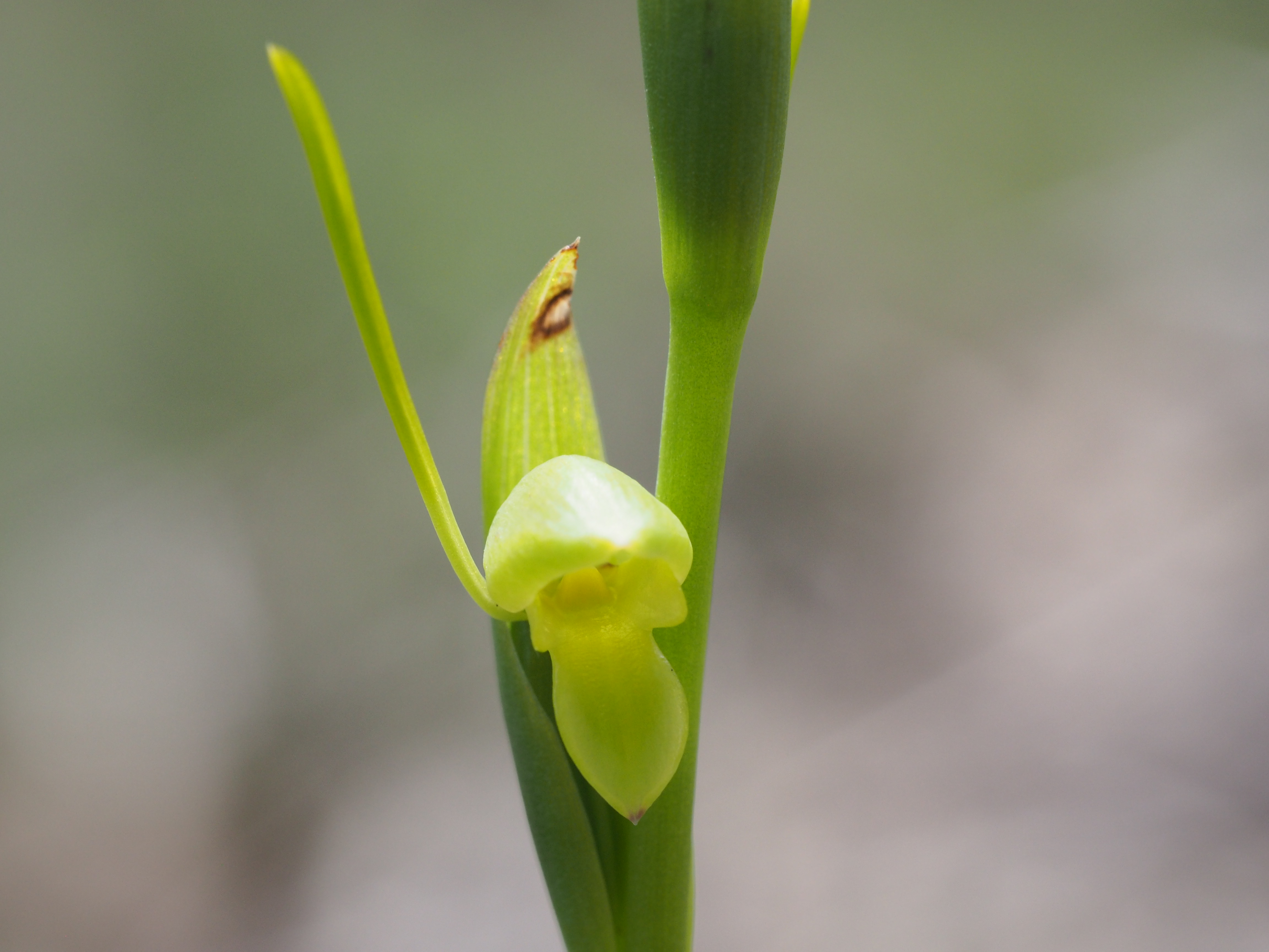 Orthoceras strictum (yellowish-green form) in the Cathedral Rock National Park